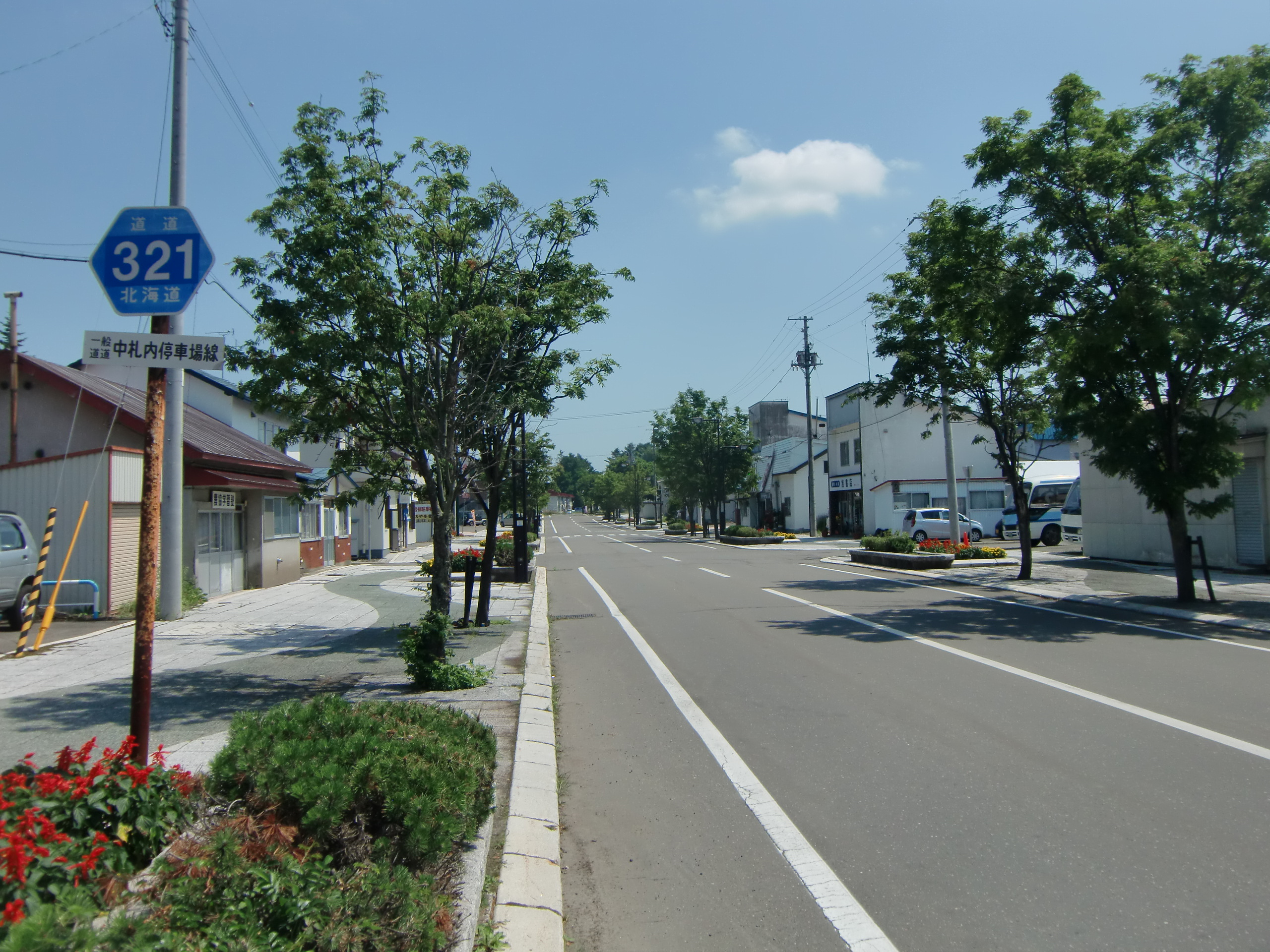 Hokkaido prefectural road 321(Nakasatsunai-teishajo line) in Odori-Minami3chome, Nakasatsunai-vill, Kasai-county, Hokkaido, JAPAN.